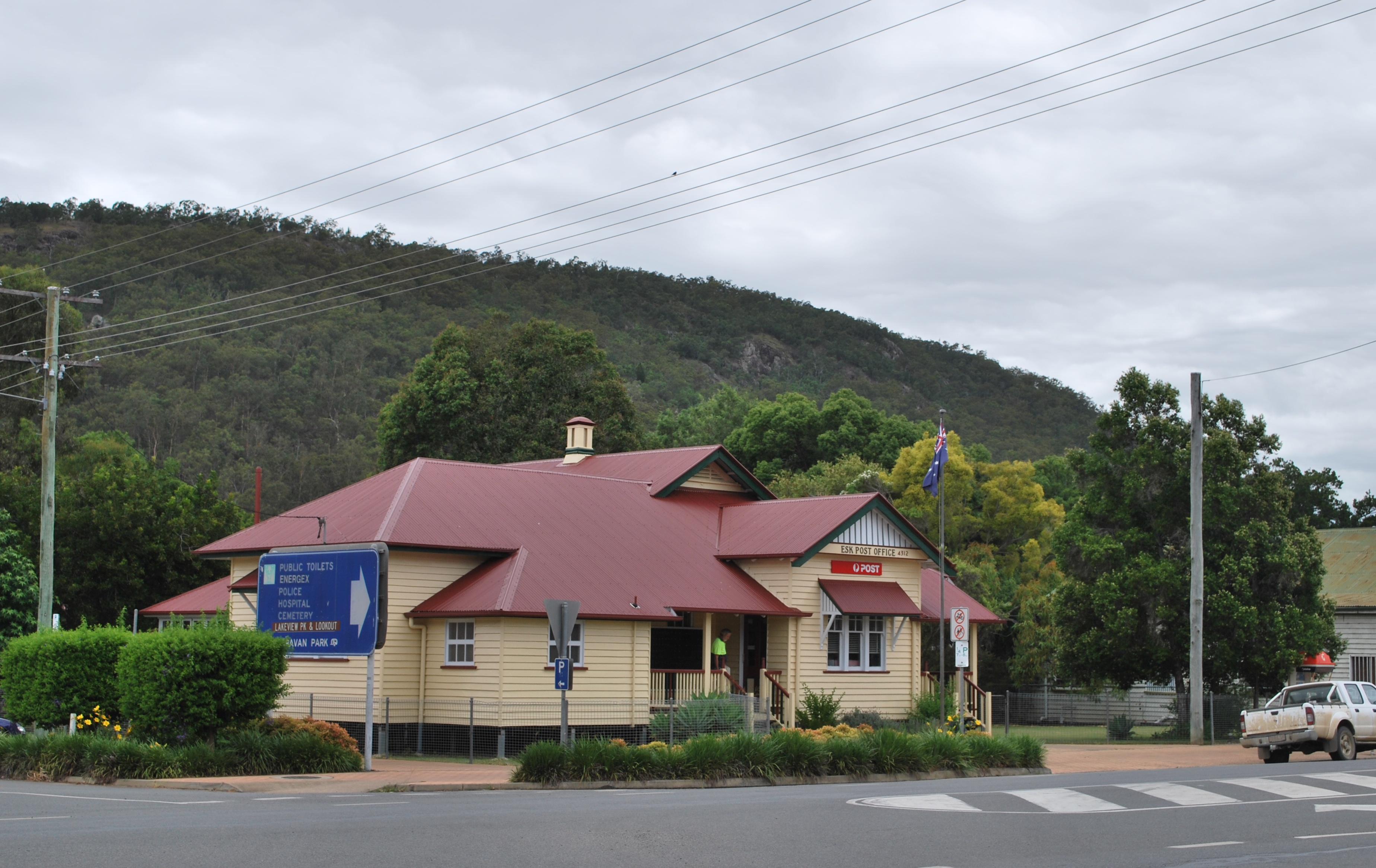 Post office at Esk, Queensland